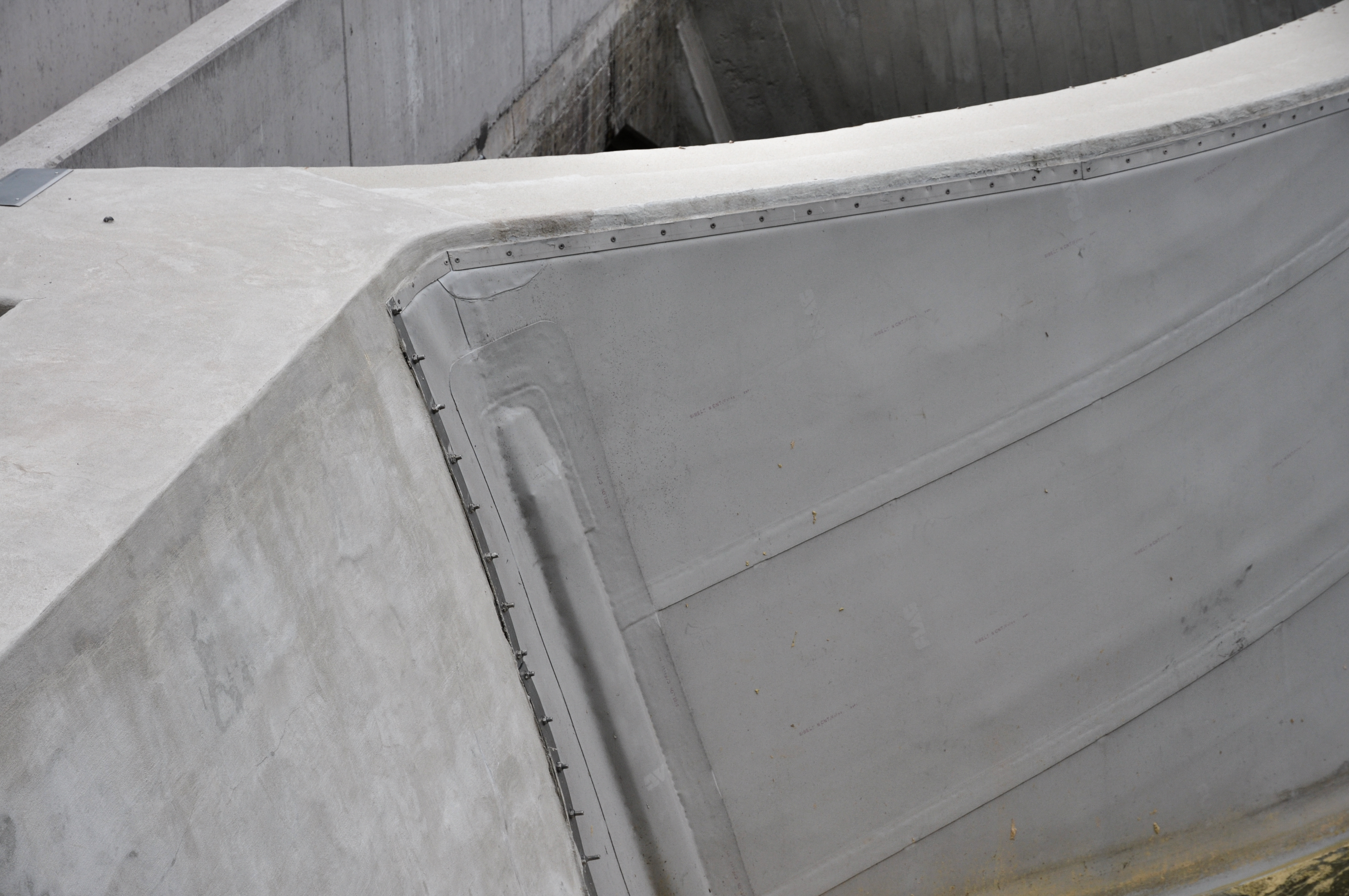 Buttress dam Linachtalsperre, Vöhrenbach, district Schwarzwald-Baar-Kreis, Baden-Württemberg, Germany